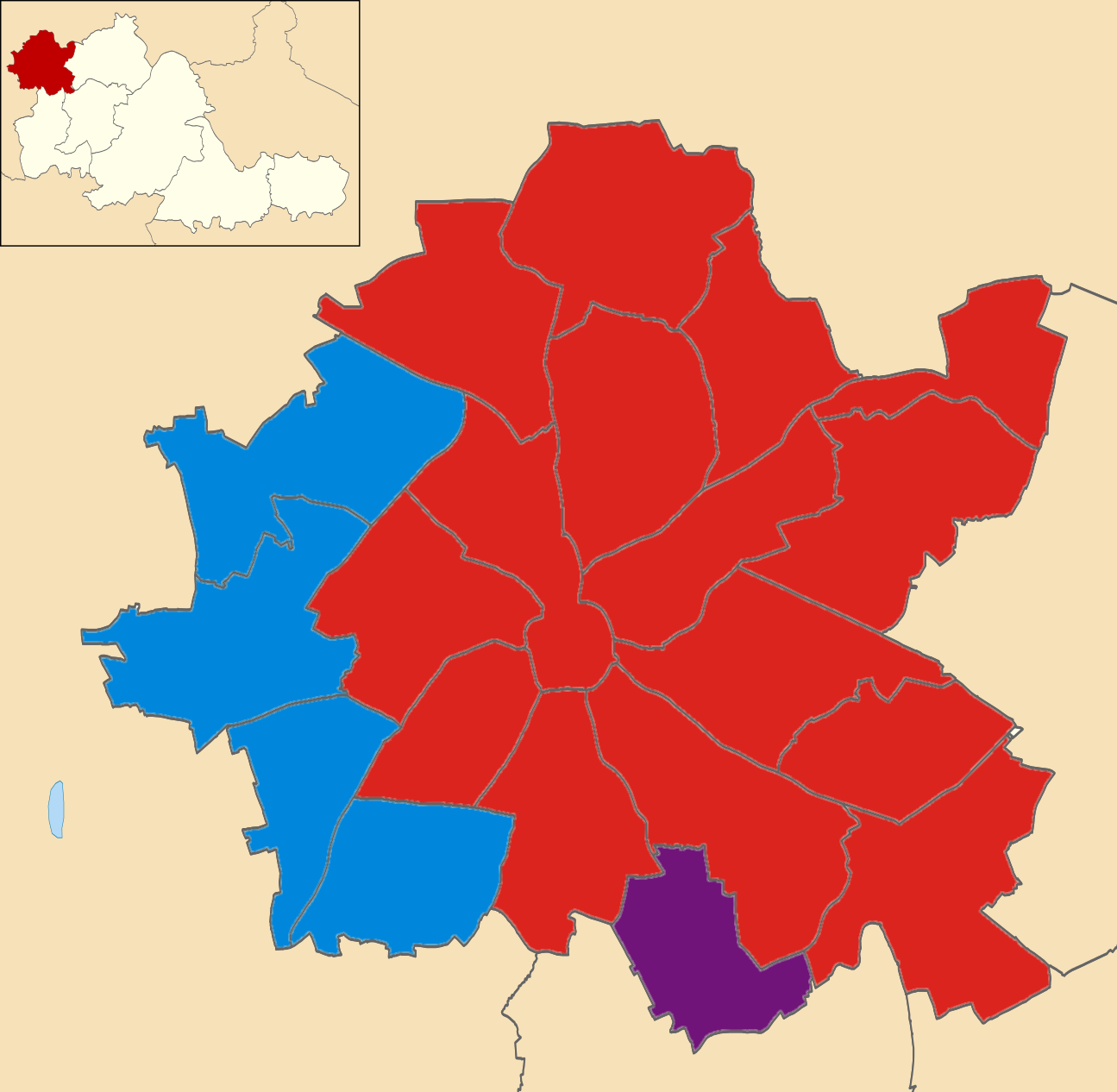 Results of the 2014 local elections in Wolverhampton Colours: Conservative Labour UKIP